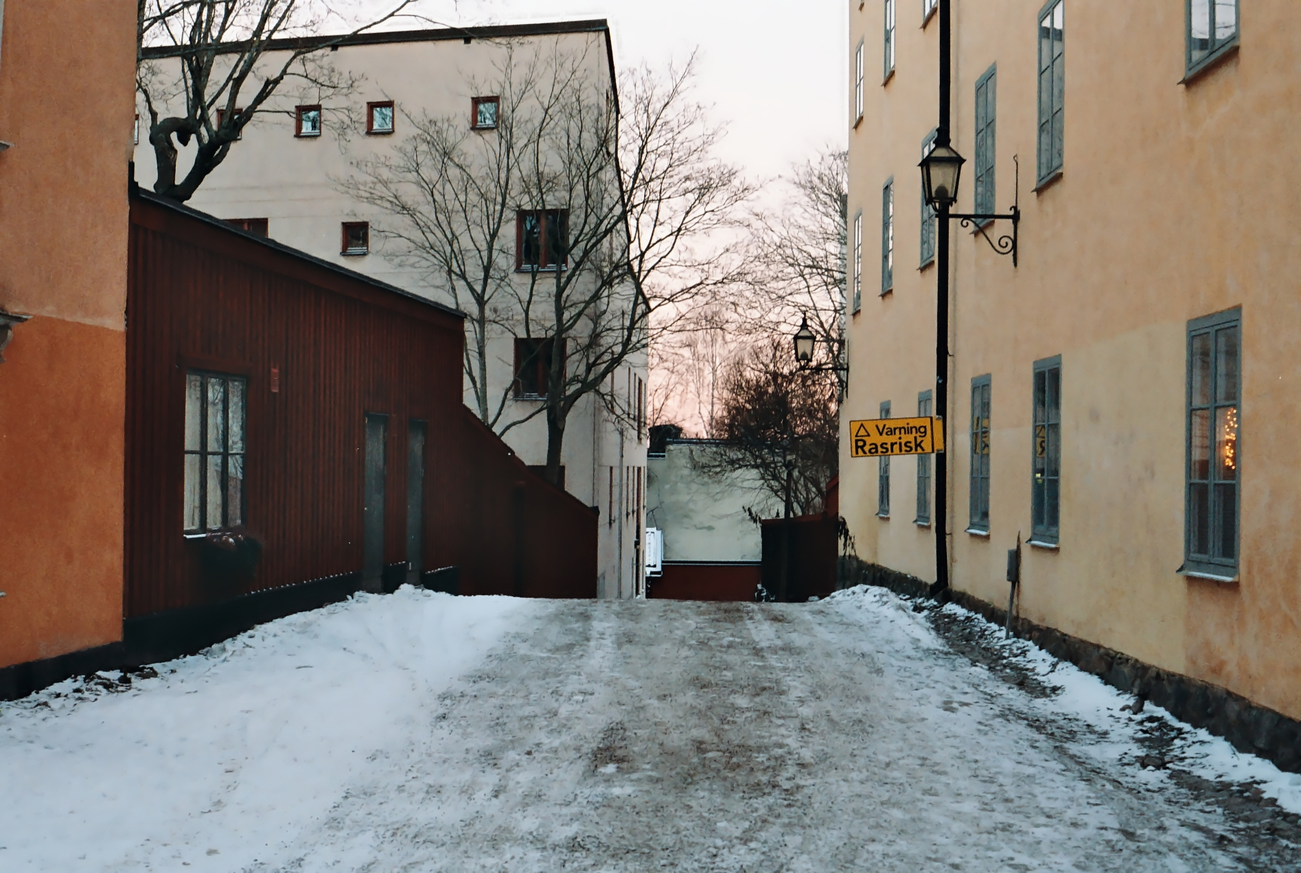 Roddargatan.